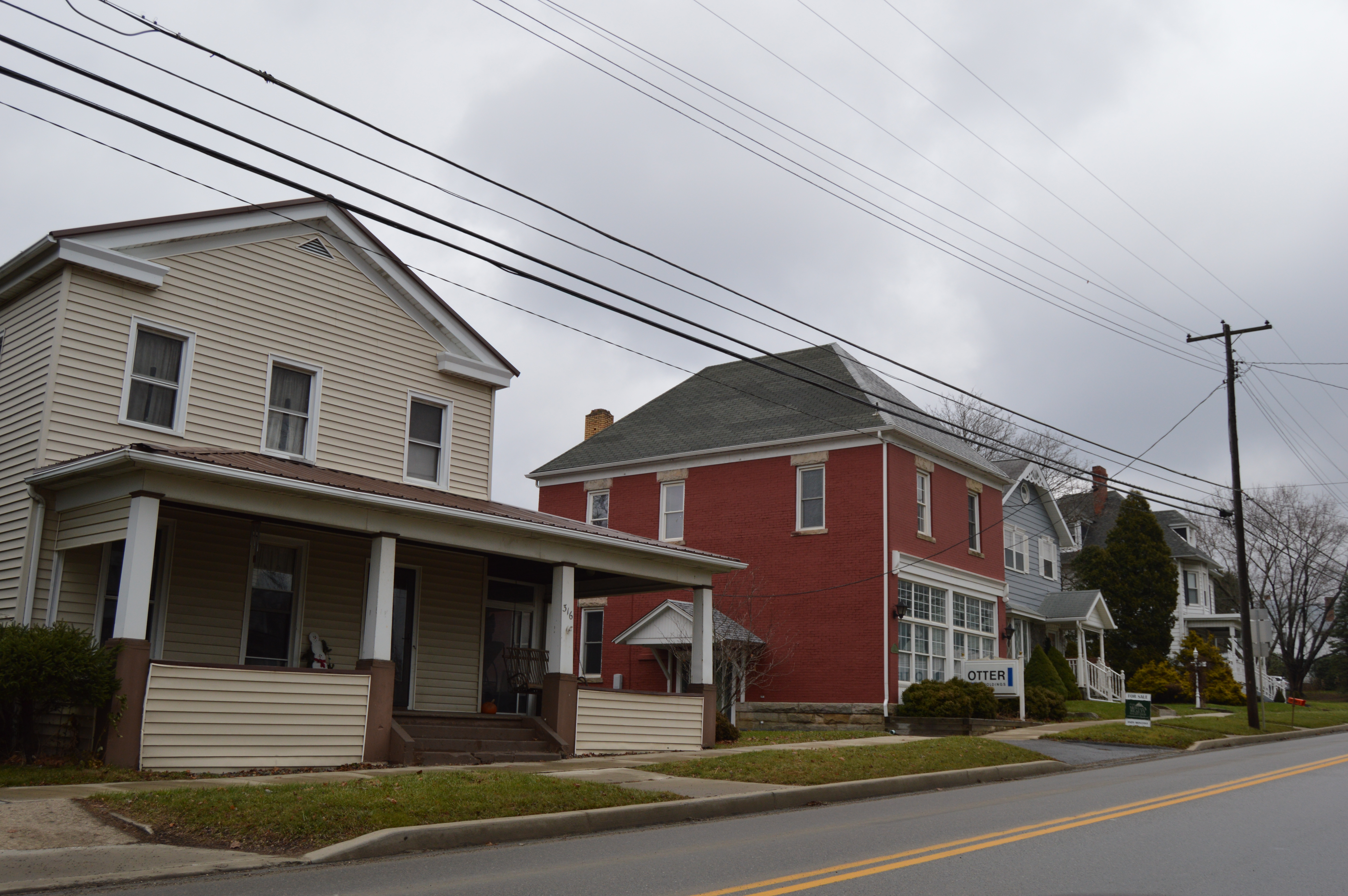 Buildings on the northern side of E. Main Street (U.S. Route 322/Pennsylvania Route 208) east of the Railroad Street intersection in Shippenville, Pennsylvania, United States.